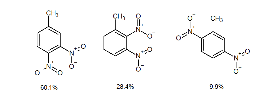 Percentage yield of various compounds formed upon the nitration of m-Nitrotoluene is shown in the above figure which demonstrates the Third Ortho effect.